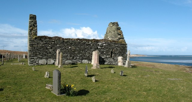 Kilnave chapel The ruined medieval chapel at Kilnave is full of history. In 1598 a brutal clan battle broke out between the Macdonalds of Islay and the Macleans of Mull who had been granted lands in Islay by James VI. About 400 Macleans invaded the island and almost all were killed in a battle near Bridgend. Some thirty Macleans took sanctuary in this church, but the Macdonalds set fire to the building and they were all burnt to death.